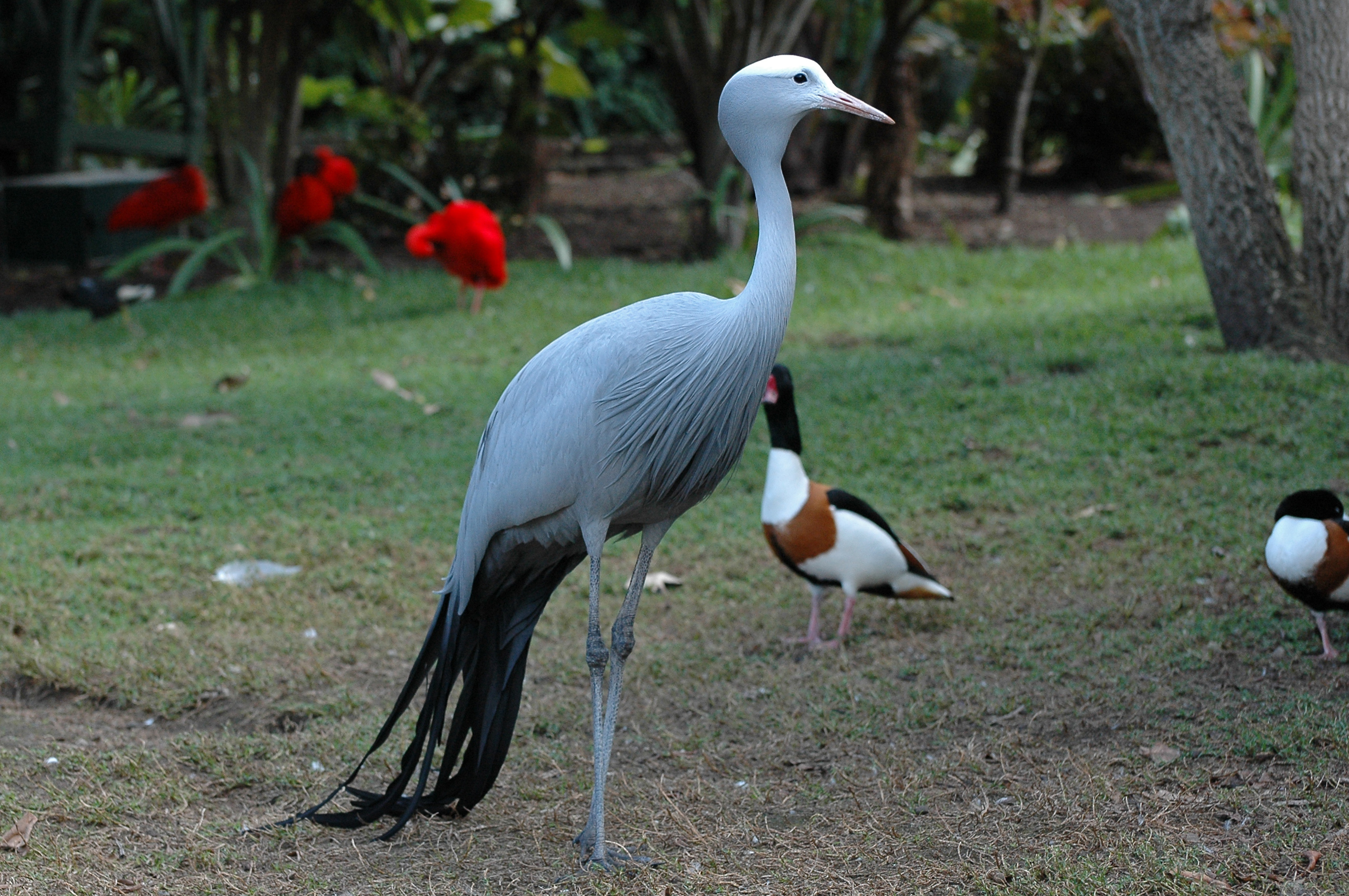 Blue Crain